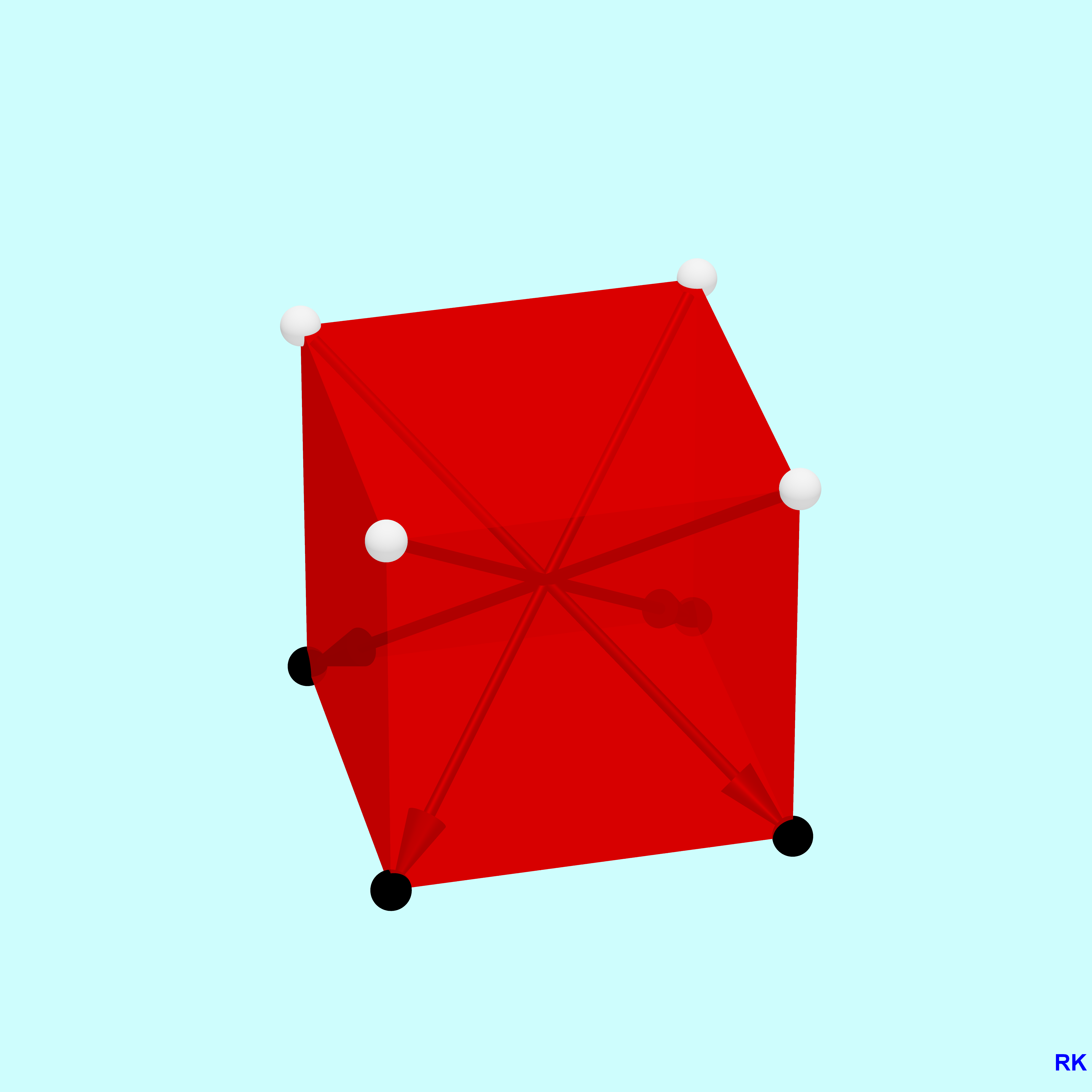 Four points of a cube (white points) and their counterparts after an inversion (black points).